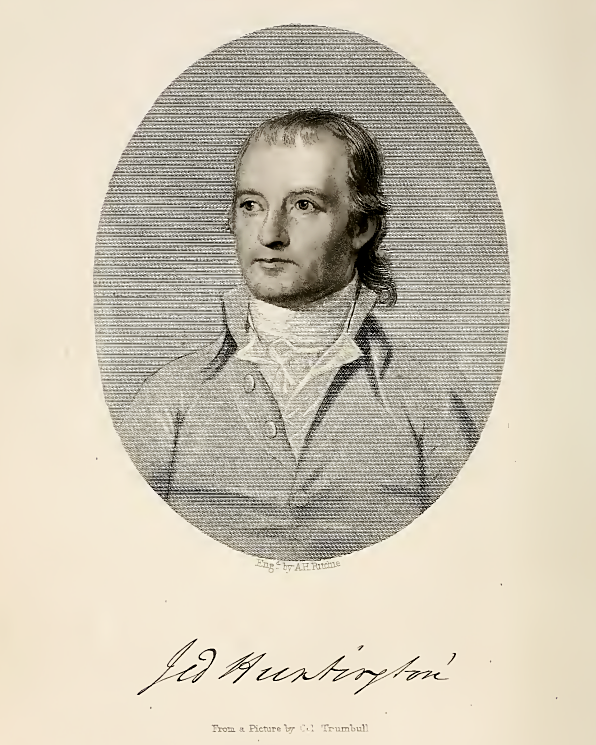 From a painting by Col. Trumbull, son of Jed's father-in-law Governor Trumbull; engraved by A.H. Ritchie